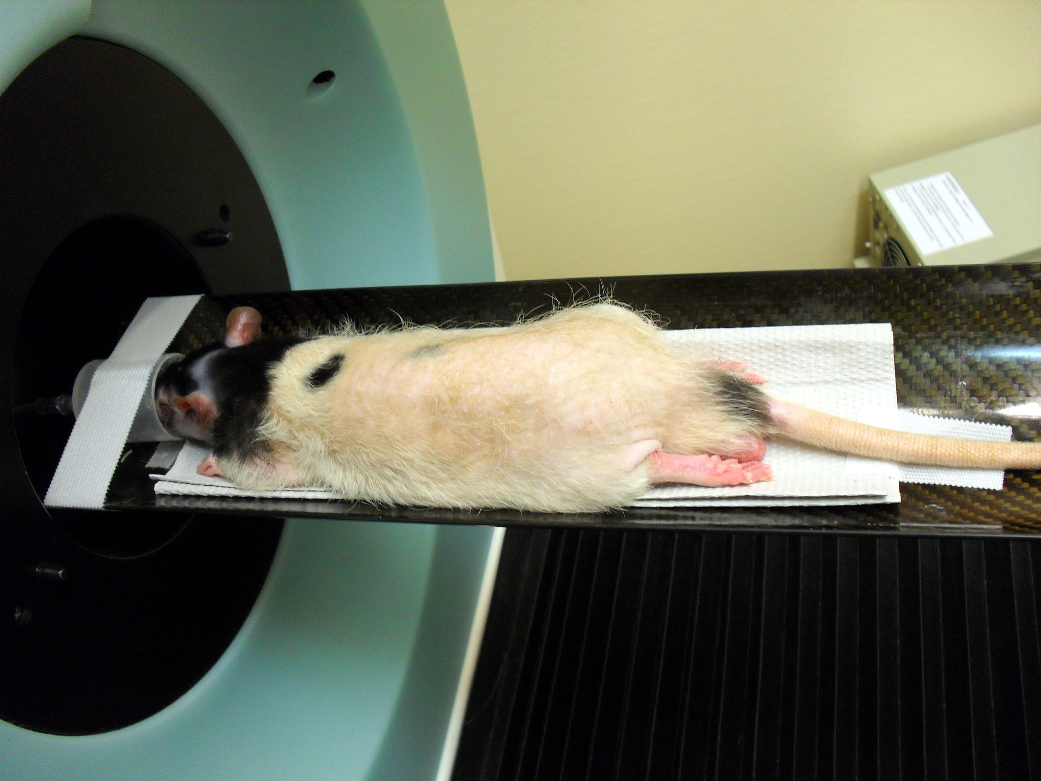 Nude rat (Crl:NIH-Foxn1rnu, Rowett nude rat) in an animal PET (positron emission tomograph), type Inveon from Siemens AG. Special thanks to PD Dr. Walter Mier (University of Heidelberg